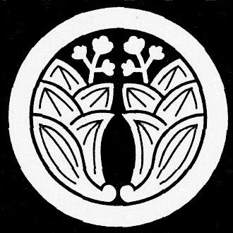 Crest of Inagaki younger branch